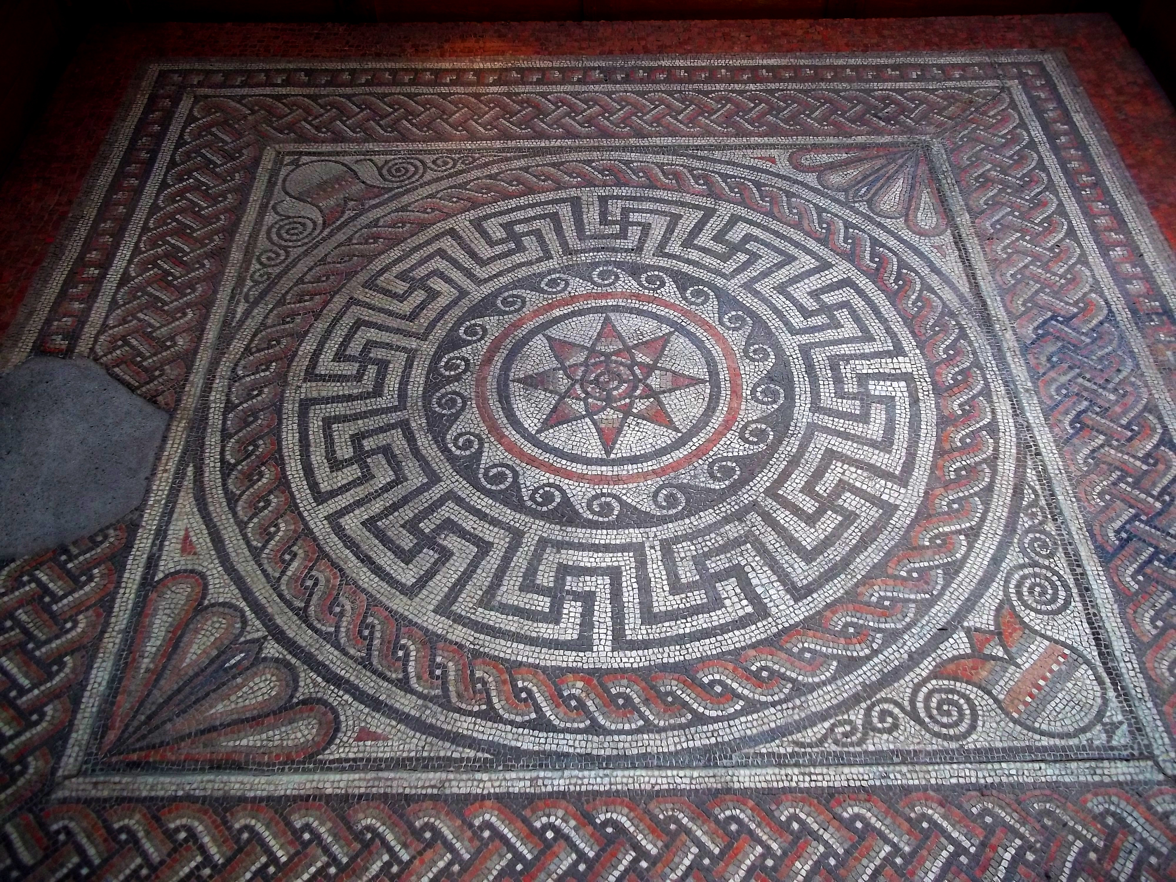 Mosaic from the reception room from Sparsholt Roman Villa, Hampshire, England. It was lifted from its site in May 1969. It was then conserved and installed to Winchester City Museum where it now resides.